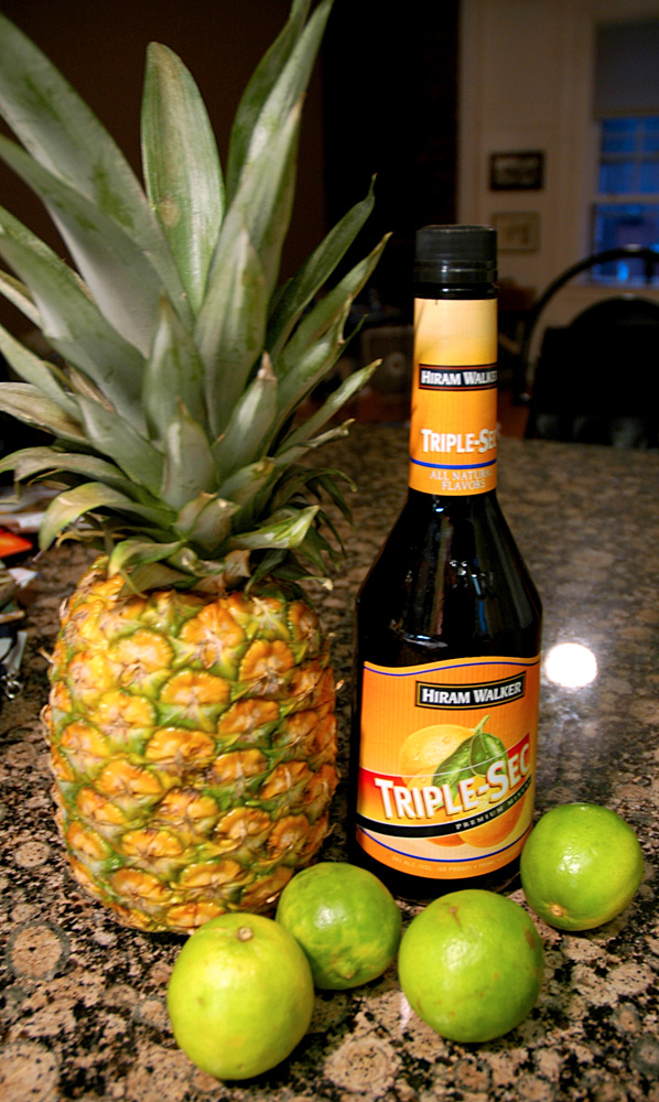 The Russian Steamer Ingredients: 1 pineapple 4 limes 1 bottle of Triple-Sec (or Curacao, whichever you prefer) 1 bottle of Vodka Slice up the pineapple and halve two limes. Take two glasses (or a glass for however many people are having one) and fill each glass with 1/4 vodka and 1/4 triple-sec. Fill the rest of the glasses with pineapple slices. Take the glasses and pour the contents into a blender or a pitcher (if you're using a hand blender). Fill the two glasses with ice, then pour that into blender. Blend well. Garnish with lime. Enjoy.